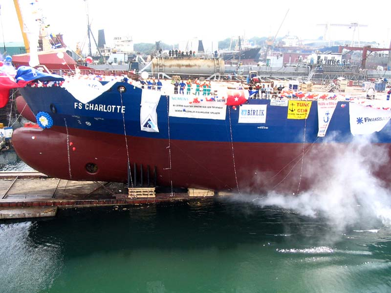 Launch of the FS Charlotte.